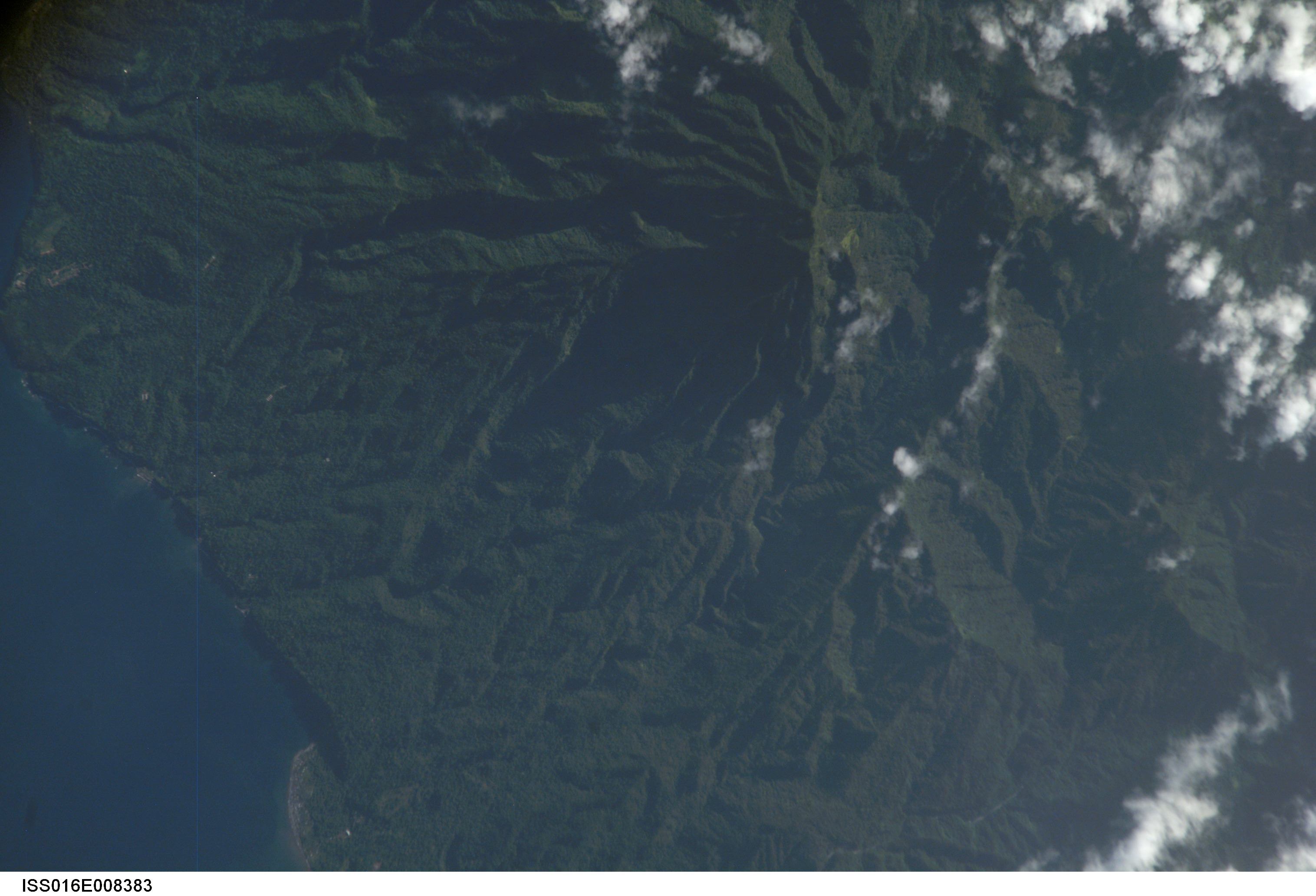 Satellite pictures of São Tomé